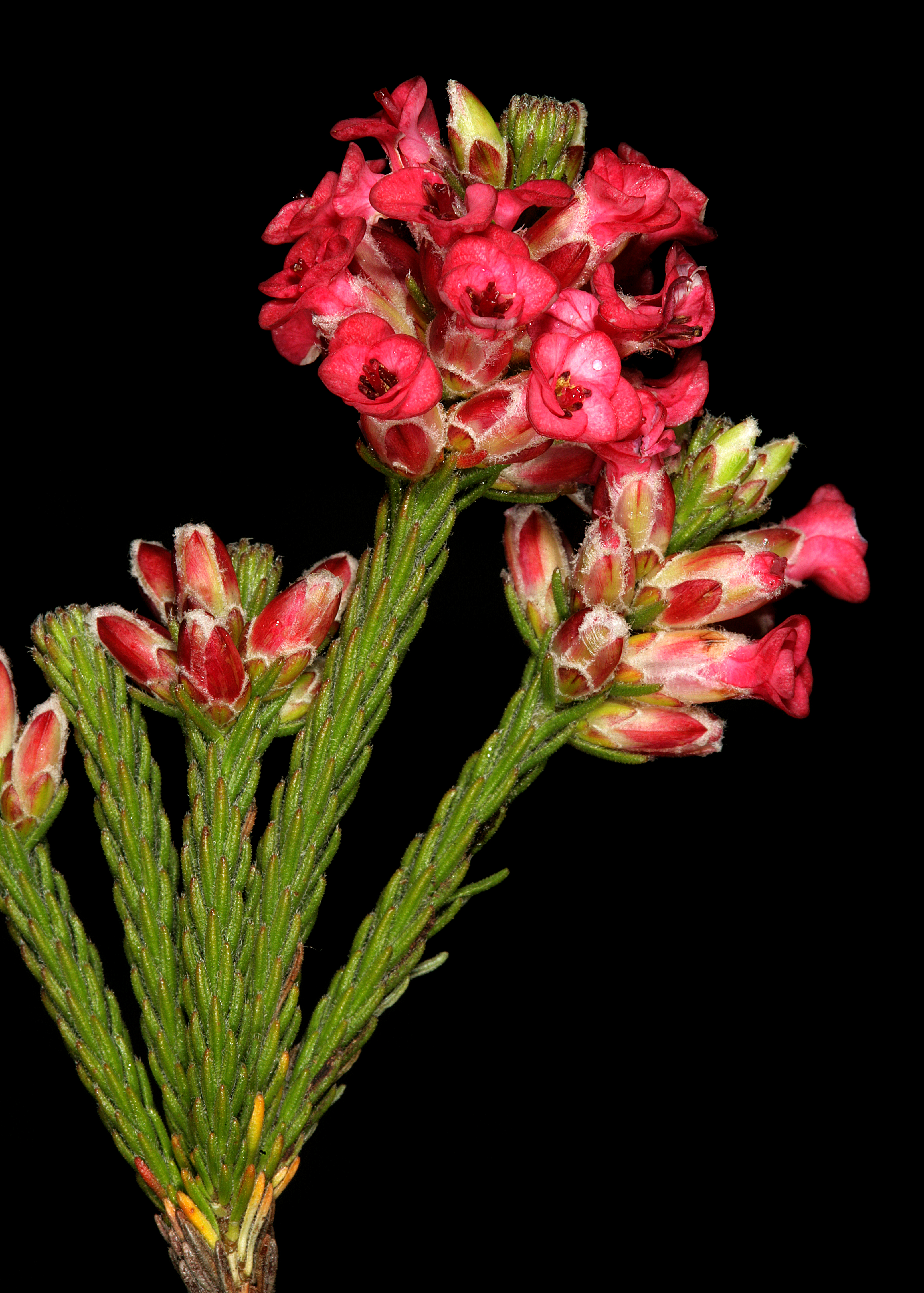 Audouinia capitata, flowers; Cape Point Nature Reserve, Cape Town, Western Cape, South Africa